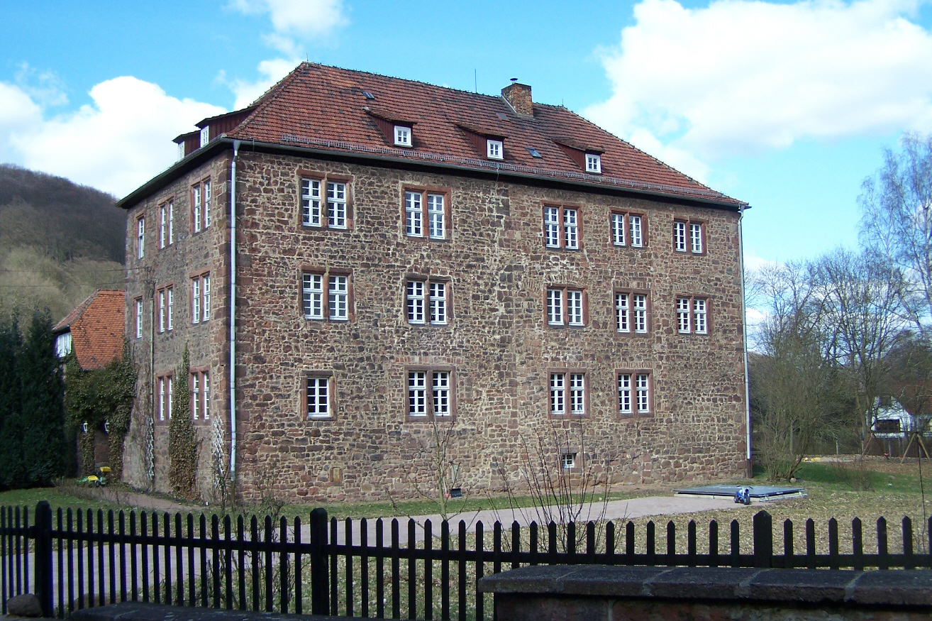 Feldeck castle in Dietlas.